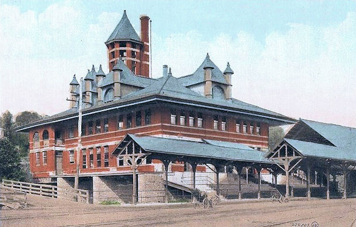 Allentown erminal Railroad Station - Allentown, Pennsylvania